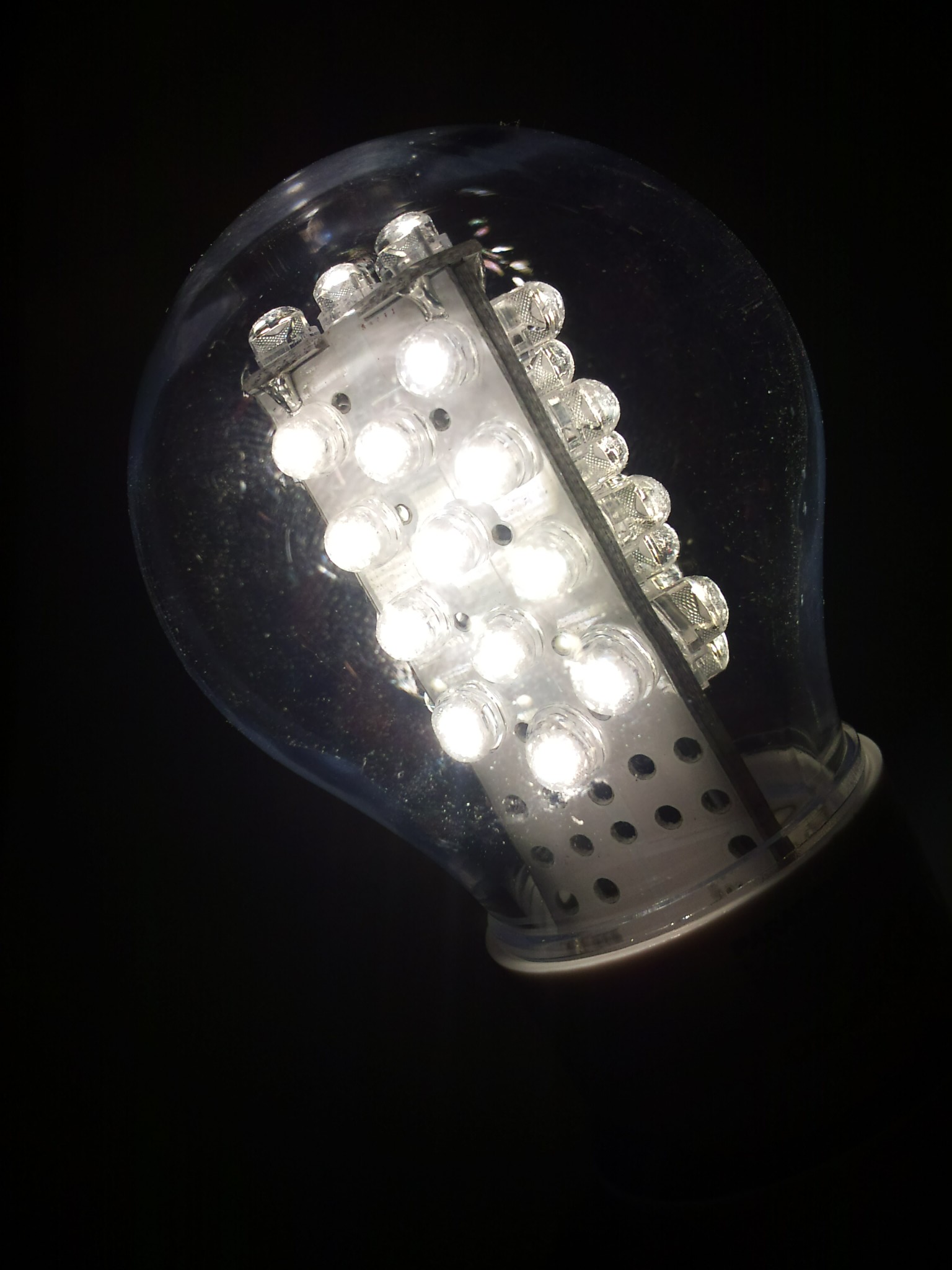 100-240V 2W (15W equivalent) E27 Osram LED Lightbulb "Warm White"